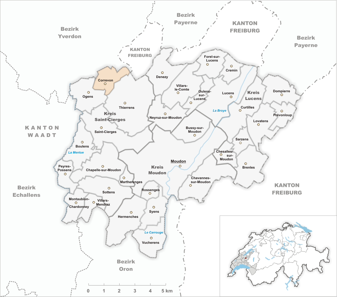 Municipality Correvon